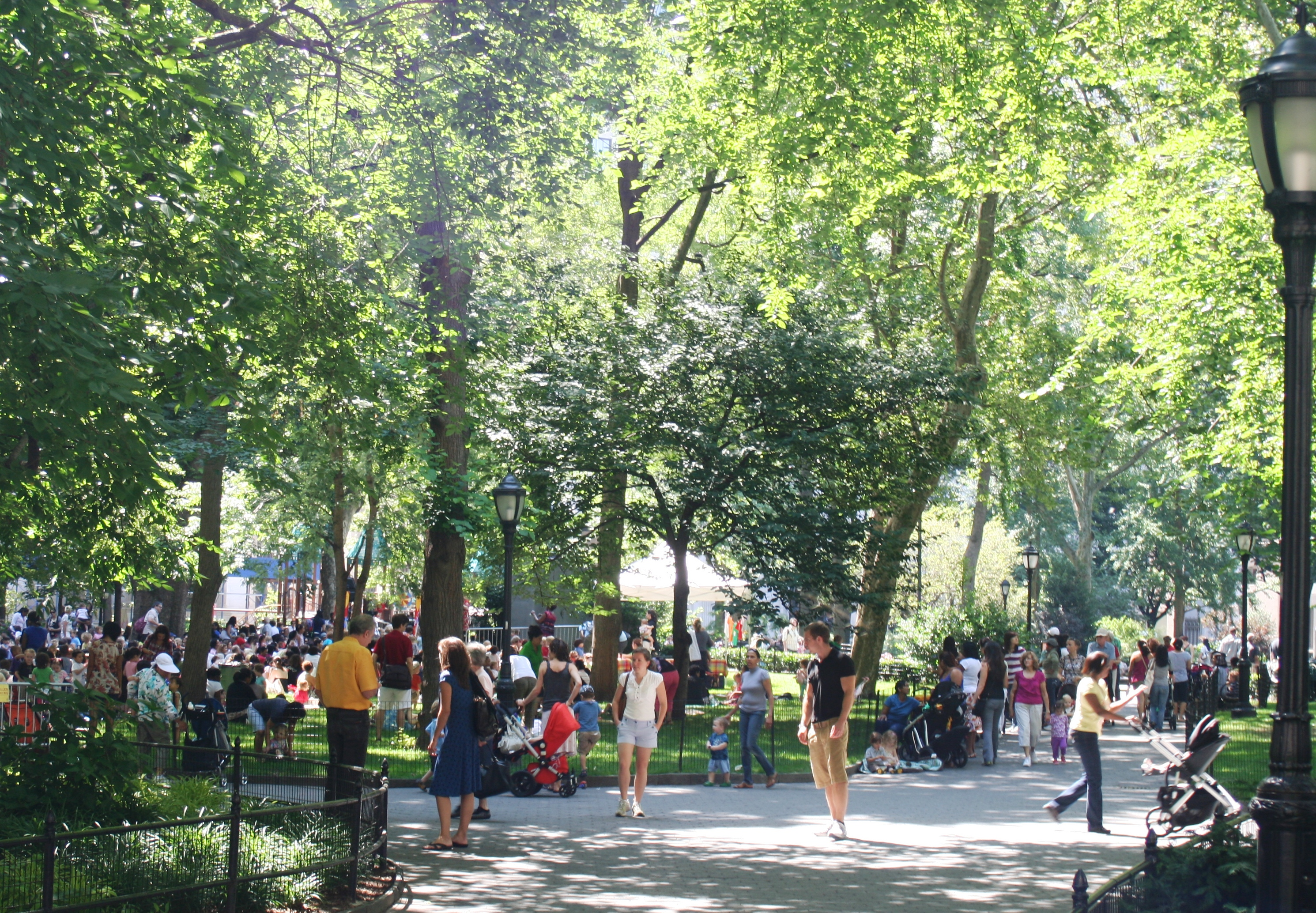 The northwestern corner of Madison Square Park in Manhattan, New York City on a summer morning